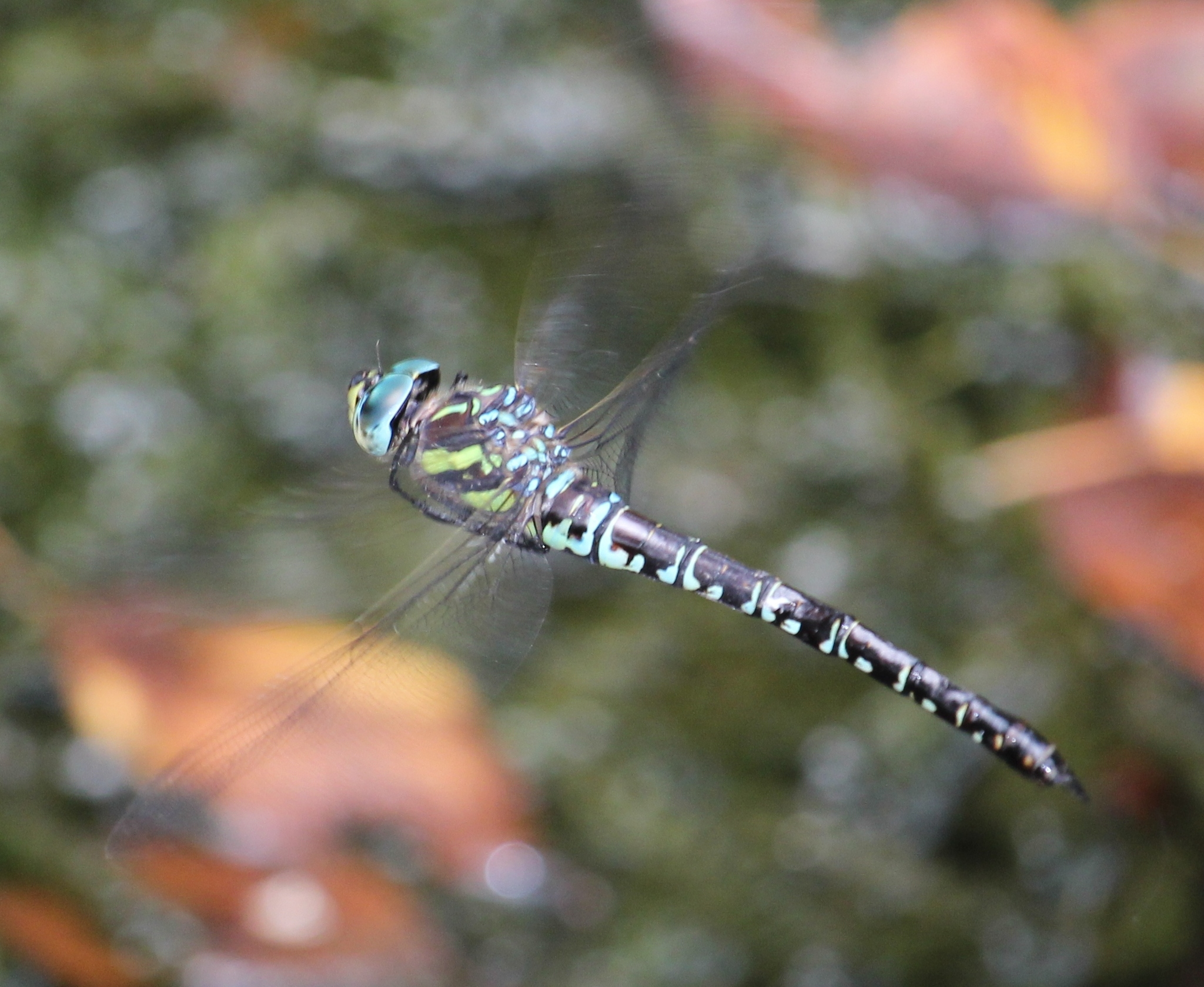 Siberian Hawker (Aeshna crenata), female in flight (blue type) in Gifu prefecture, Japan.